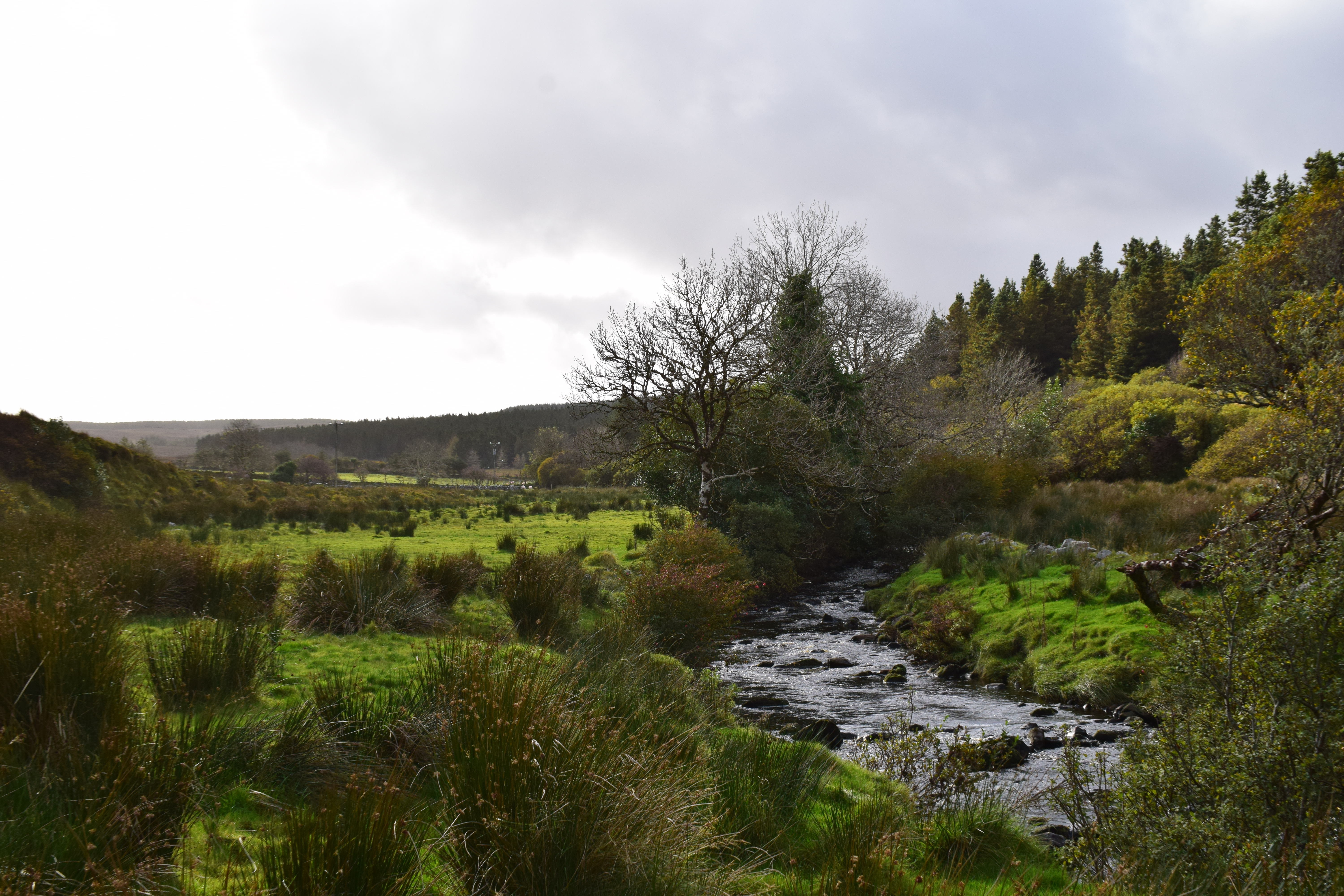 A view looking towards the hamlet of Barrooskey from the Barrooskey River (a tributary of the Glenamoy River).